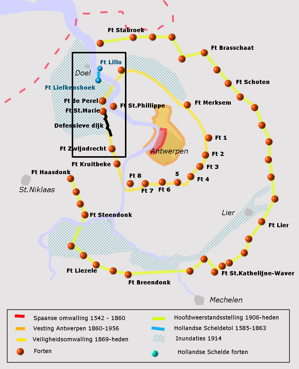 Map of the fortifications of Antwerp ( Stelling van Antwerpen